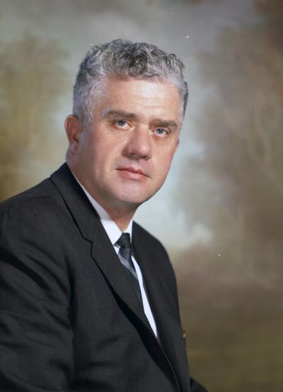 Senator Don L. Talley, 1967